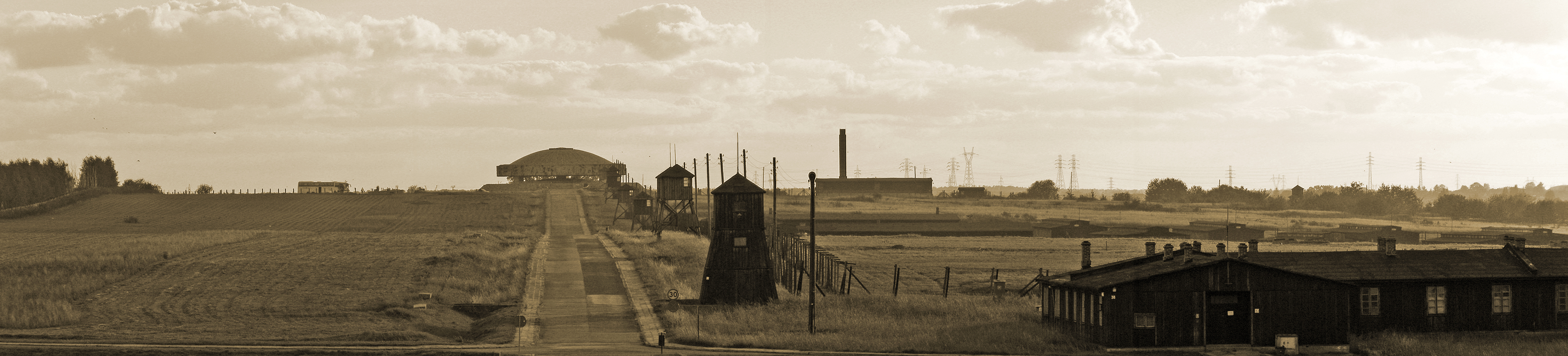 Panorama Konzentrationslager Lublin